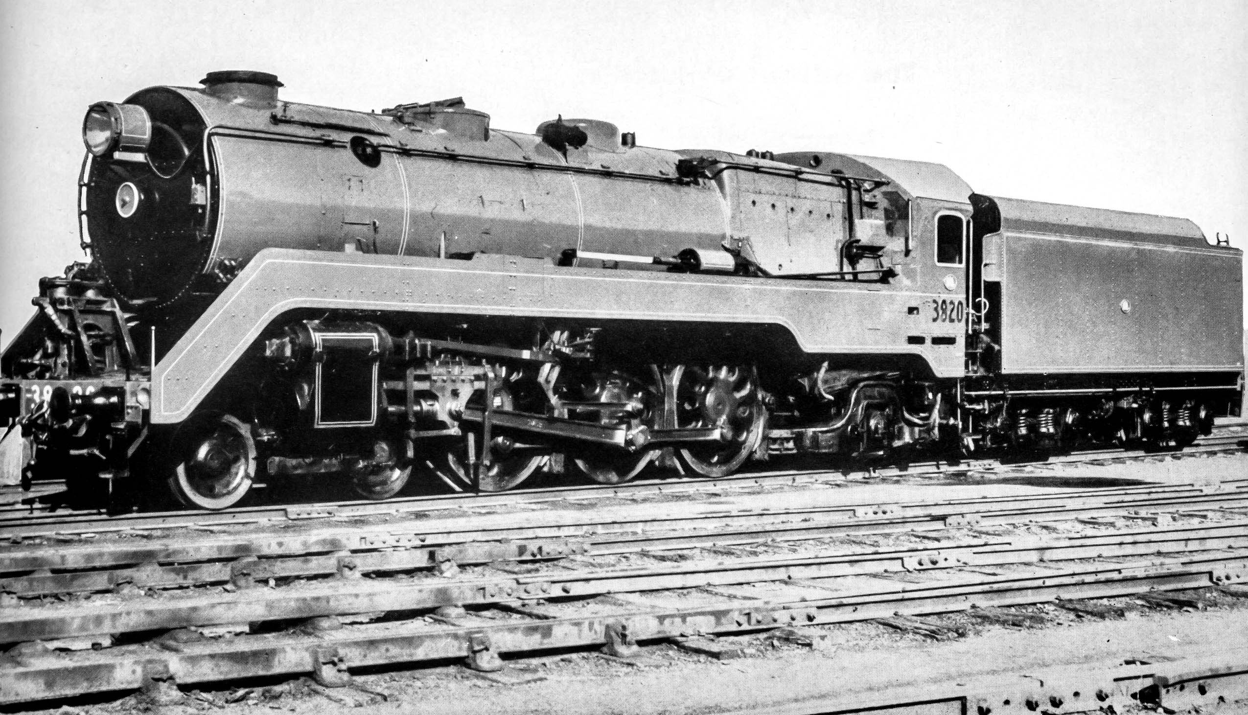 NSWGR Class C.38 Locomotive Non-Streamlined